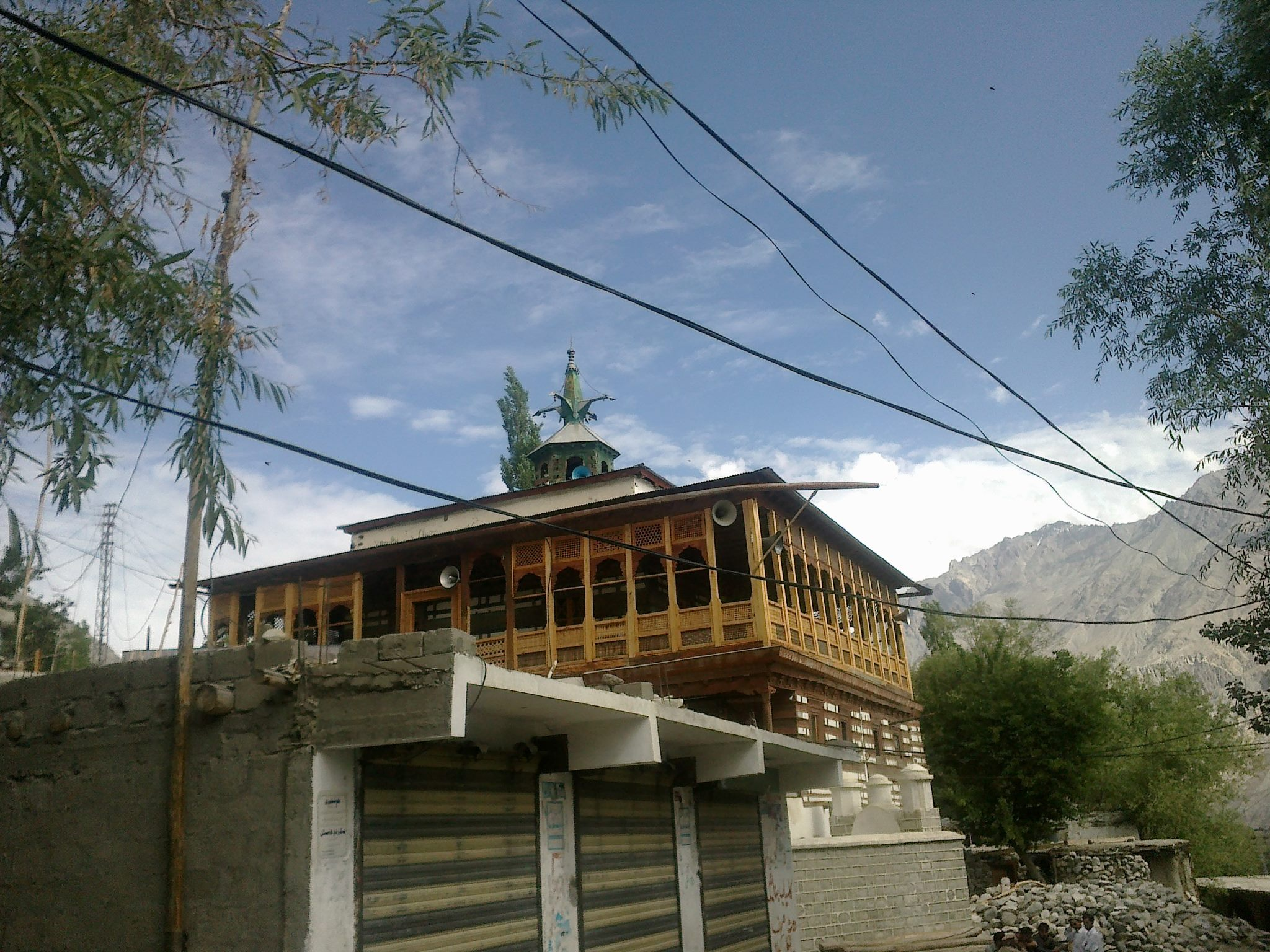 this is the photo of mosque in khaplu